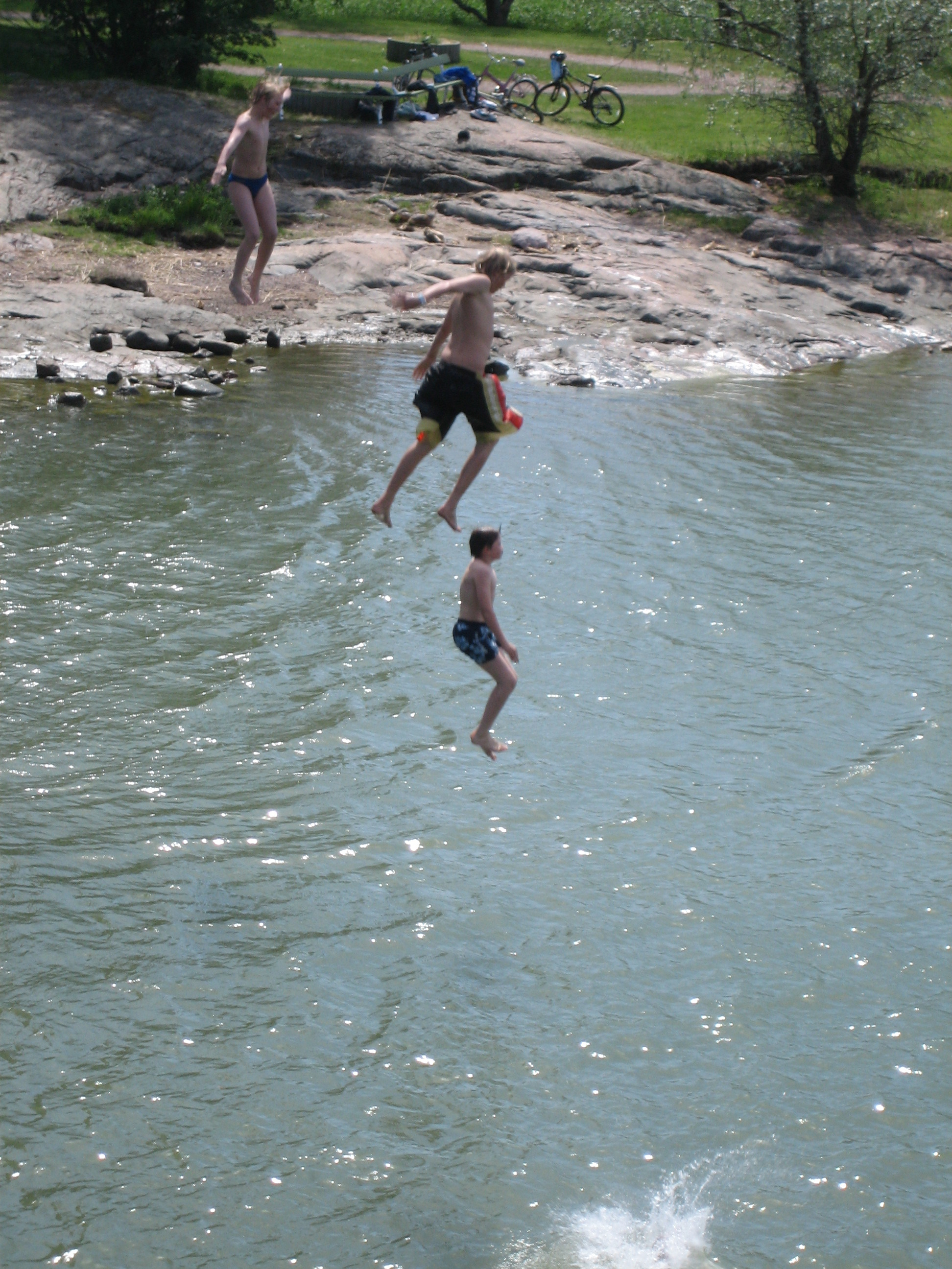 Becoming flying finns: kids enjoying their summer and jumping into sea in front of island Lauttasaari